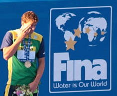 Cielo and the FINA logo in the 100 m freestyle podium - 2009 World Aquatics Championship